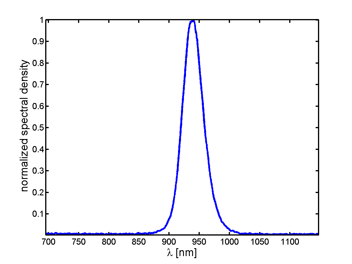 Emission spectrum of the control remote of a Yamaha sound system, measured with an Ocean Optics spectrometer